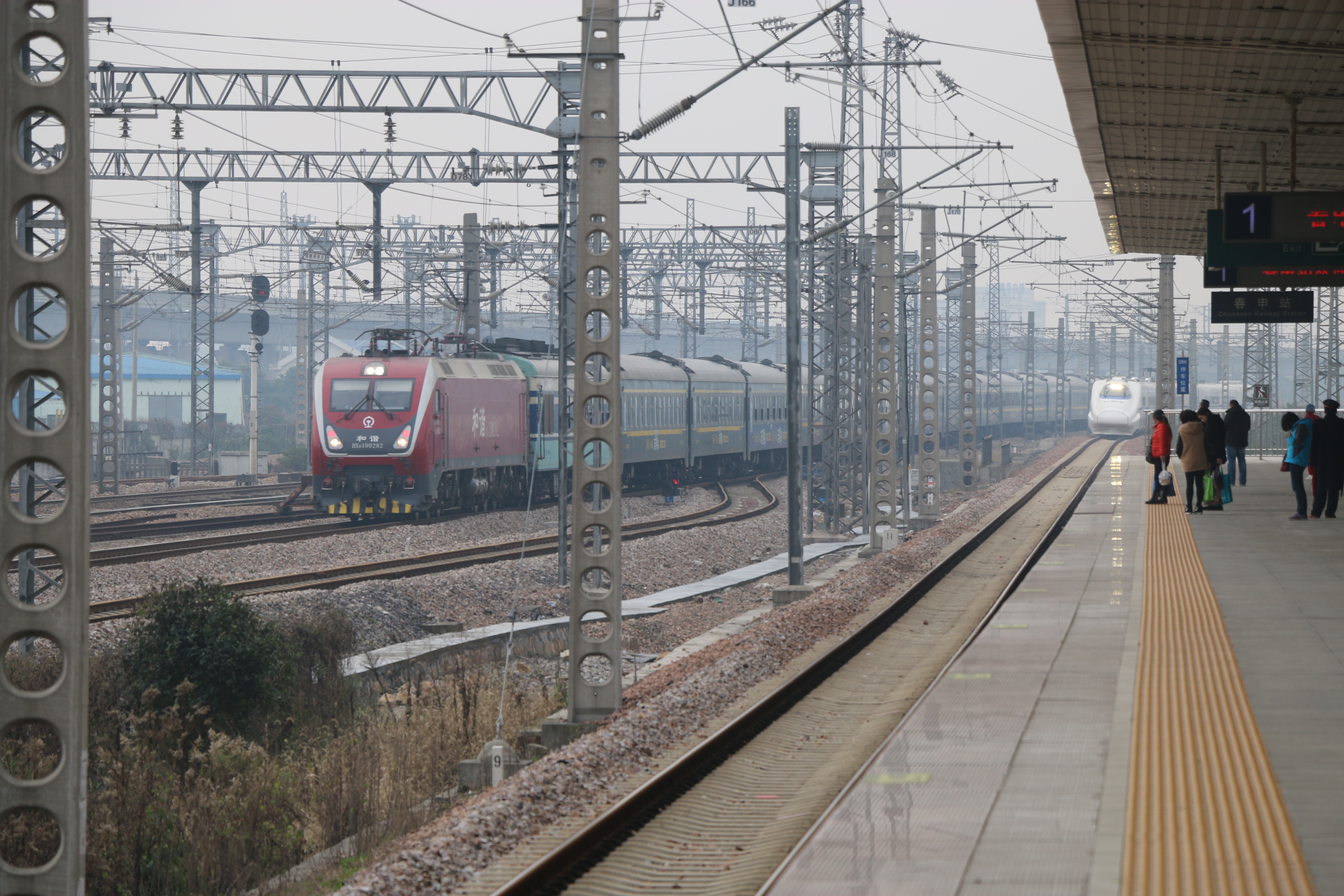 Two trains(T112 Hangzhou to Lanzhou with HXD1D+25T and C3616 with CRH2A Jinshanwei to Shanghainan) approaches to Chunshen Railway Station